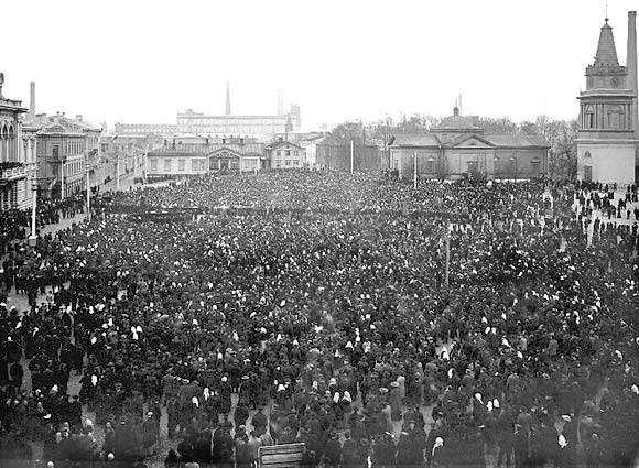 Demonstration on the Central Square of Tampere, Finland during the general strike of 1905. The Finlayson & Co factory can be seen in the background.